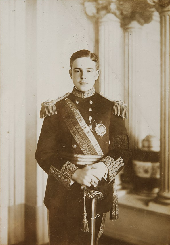 Photograph of King Manuel II of Portugal.